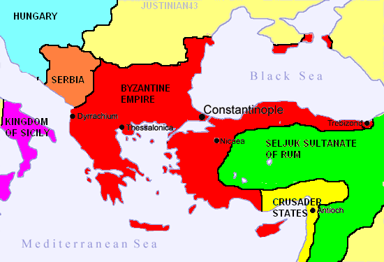 Map of the Byzantine Empire and Crusader States after the First Crusade in the 1090s